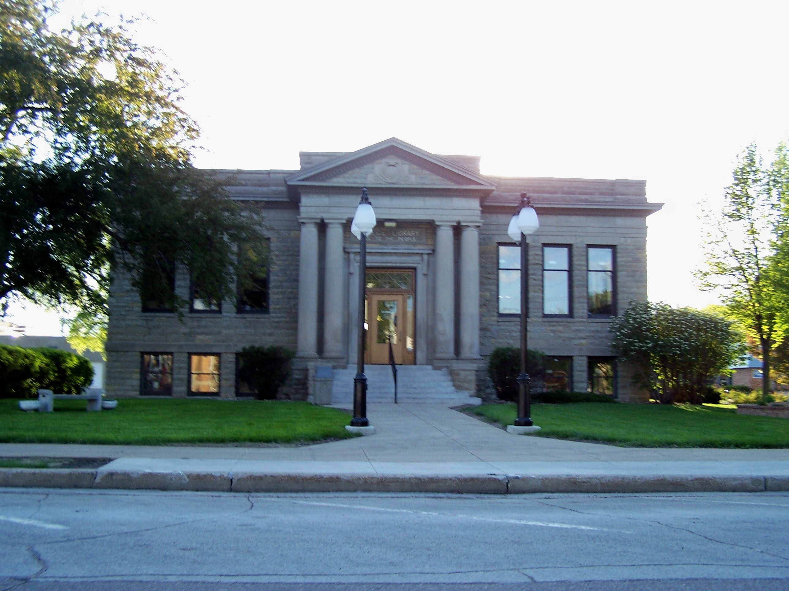 Humboldt Public Library (east enterance) in Humboldt, Iowa.